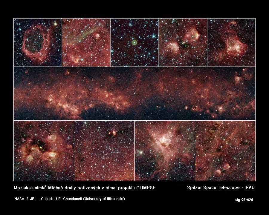 A GLIMPSE of the Milky Way